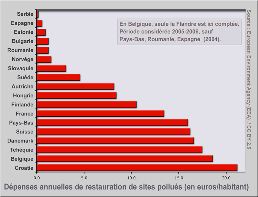 This graph shows annual site remediation expenditures in selected European countries as EUR per capita